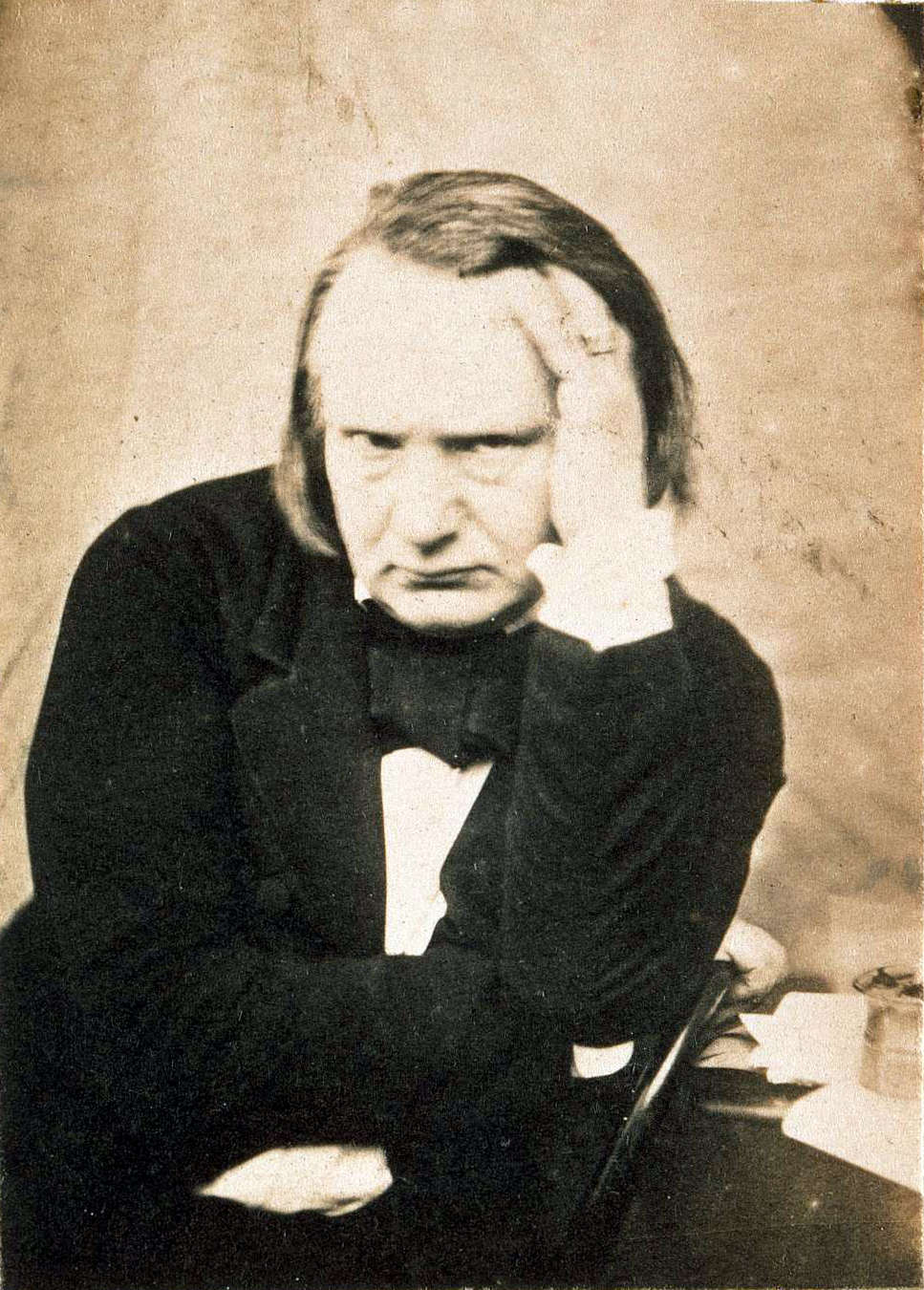 Portrait photograph of Victor Hugo